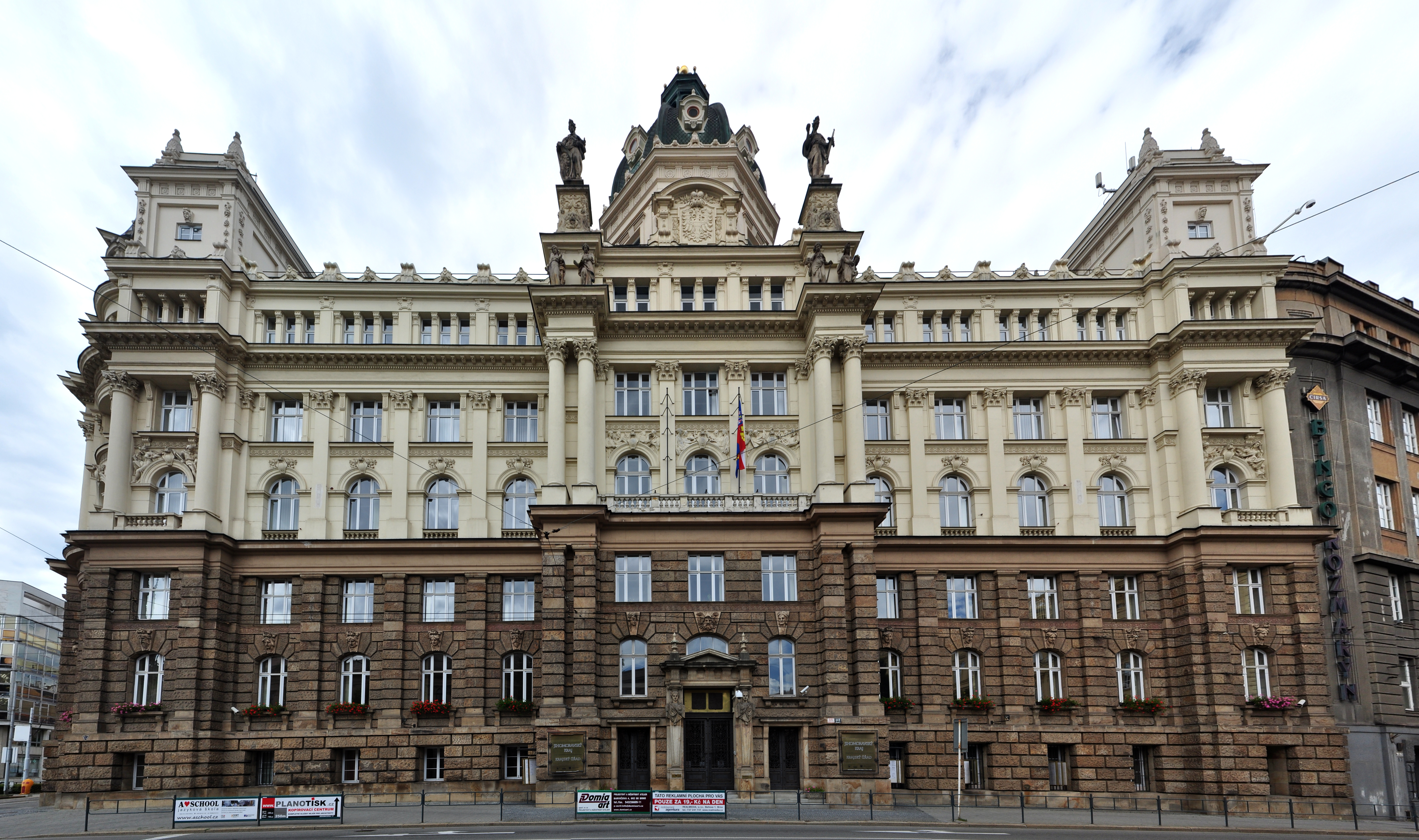 Brno - New regional palace